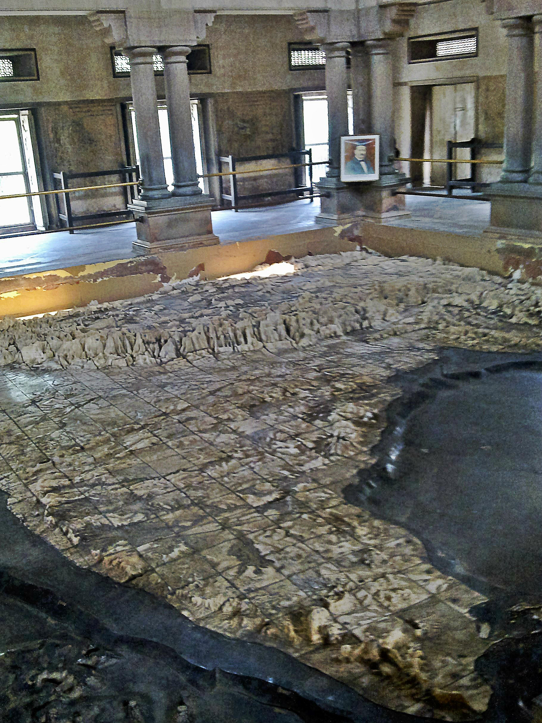 Mother India Temple in university campus of Mahatma Gandhi Kashi Vidyapith. The relief map of undivided India as Bharatmata, carved out of marble at Bharat Mata Mandir. 2015-11-14 2015in05-3vrns_029